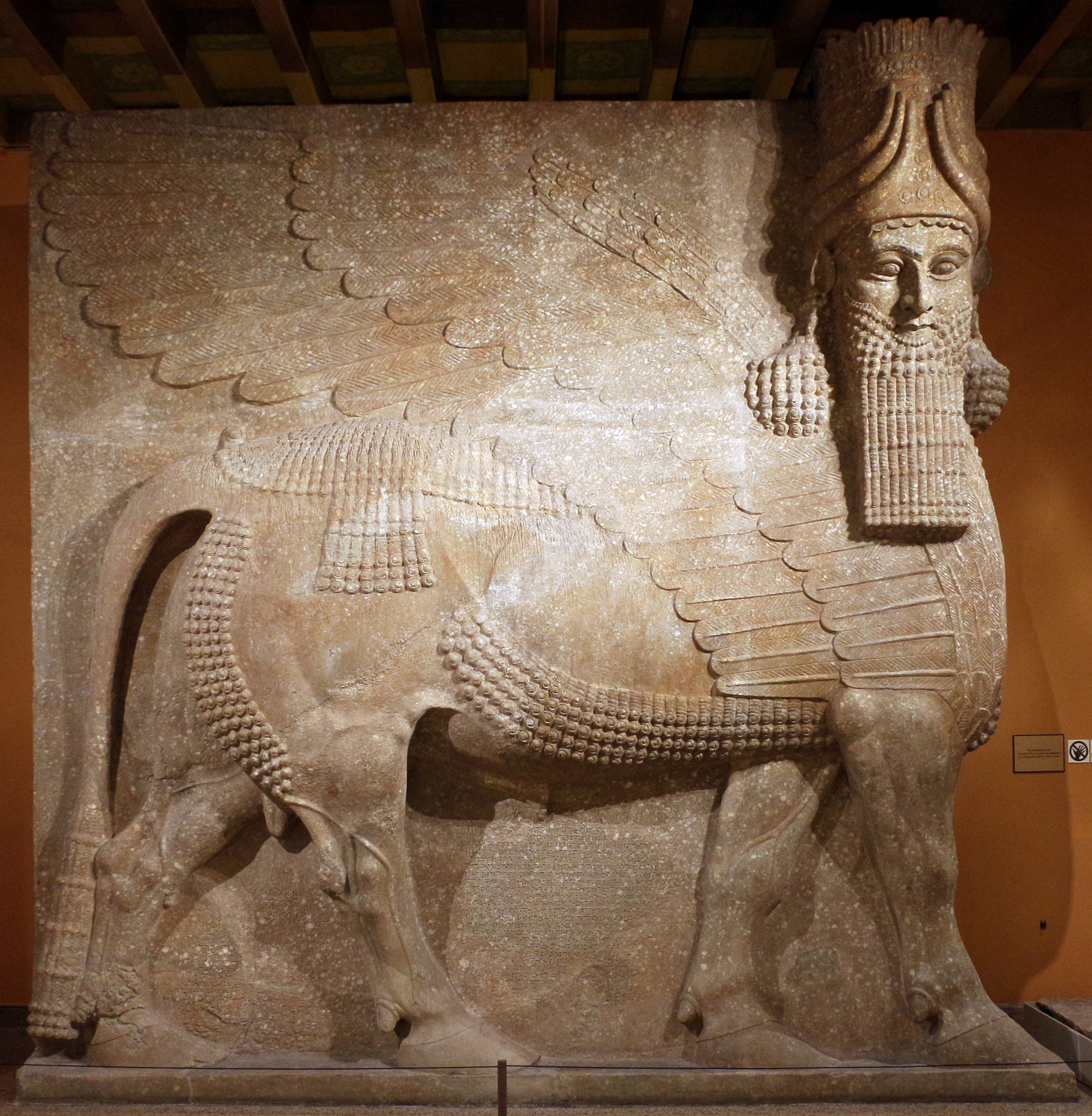 Neo-Assyrian antiquities in the Oriental Institute Museum